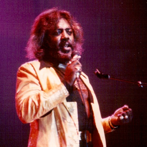 Latimore in Nancy, France on October 22, 1983